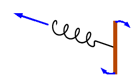 Corckscrew to illustrate corkscrew rule. 2006